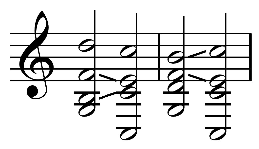 Dominant seventh tritone resolution chords